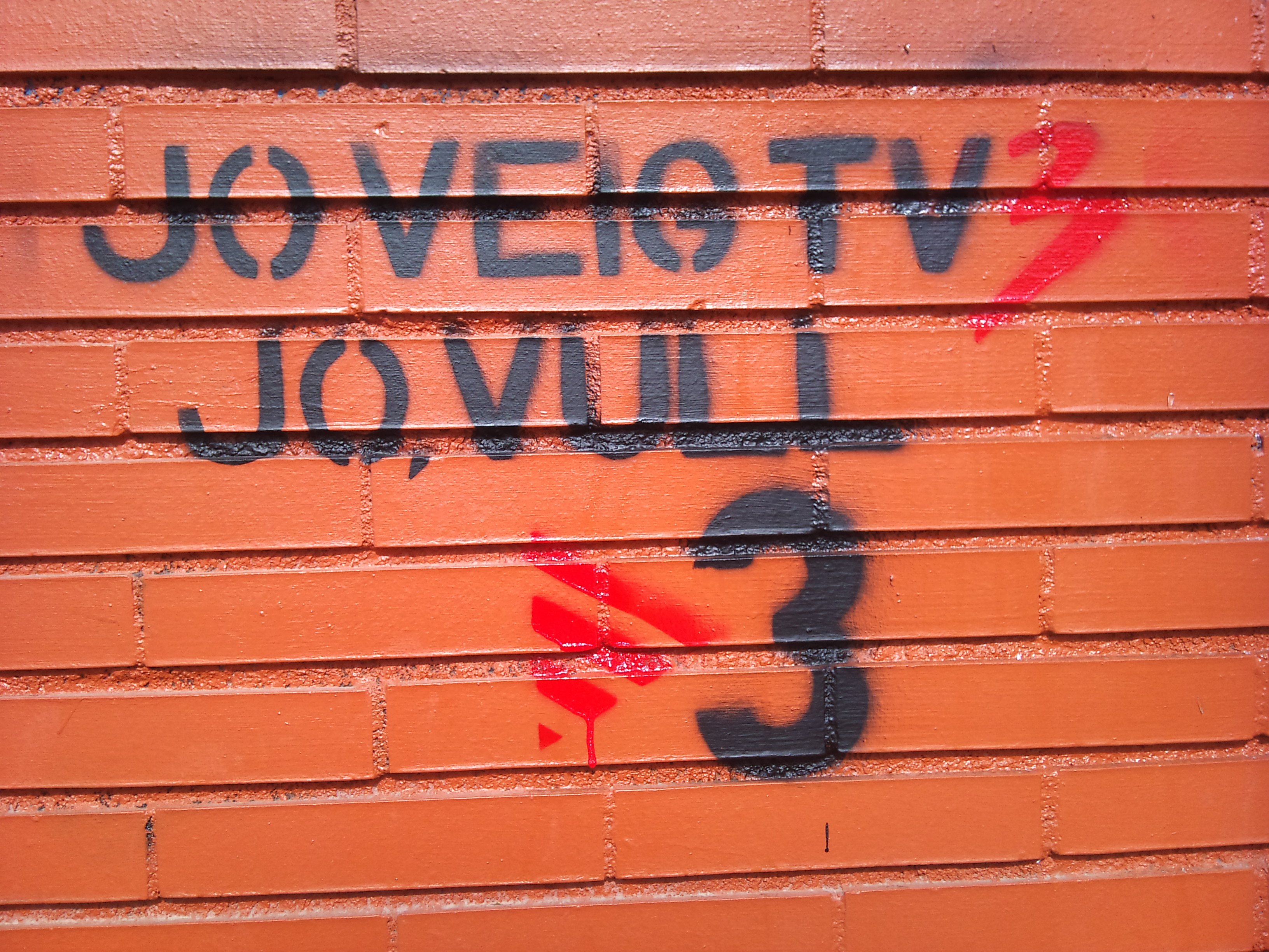 Graffity against the clausuration of TV3- Catalonia's Television in the Land of Valencia. The graffity is located in the Social Science Campus of the University of Valencia.